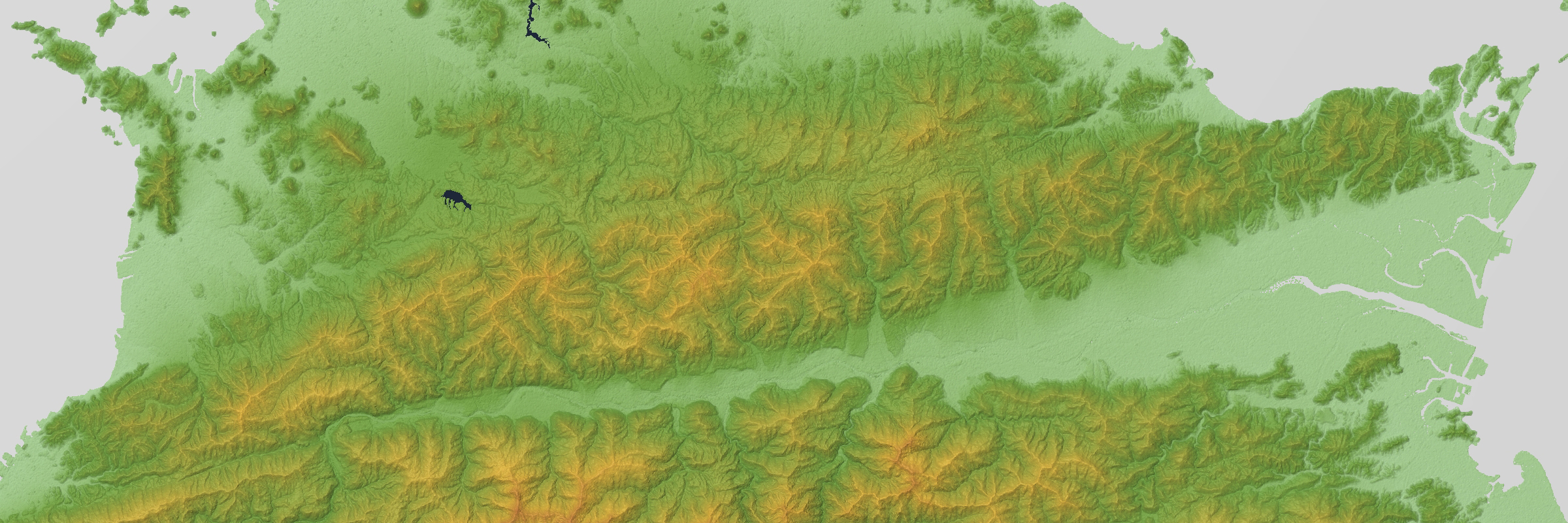 Sanuki Mountains and Median Tectonic Line in Shikku, Japan.